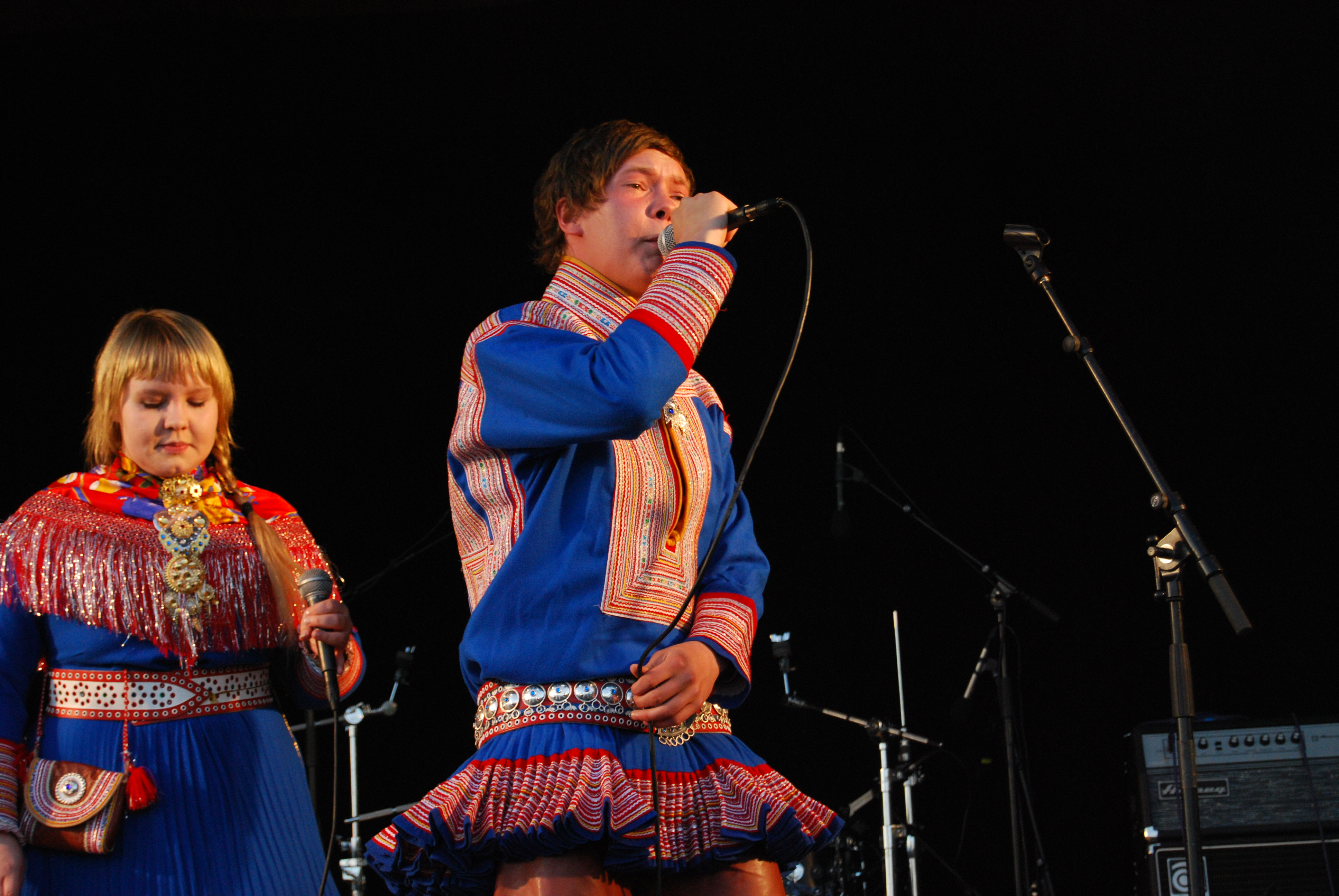 Musical group Duolva Duottar on Márkomeannu, Norway.